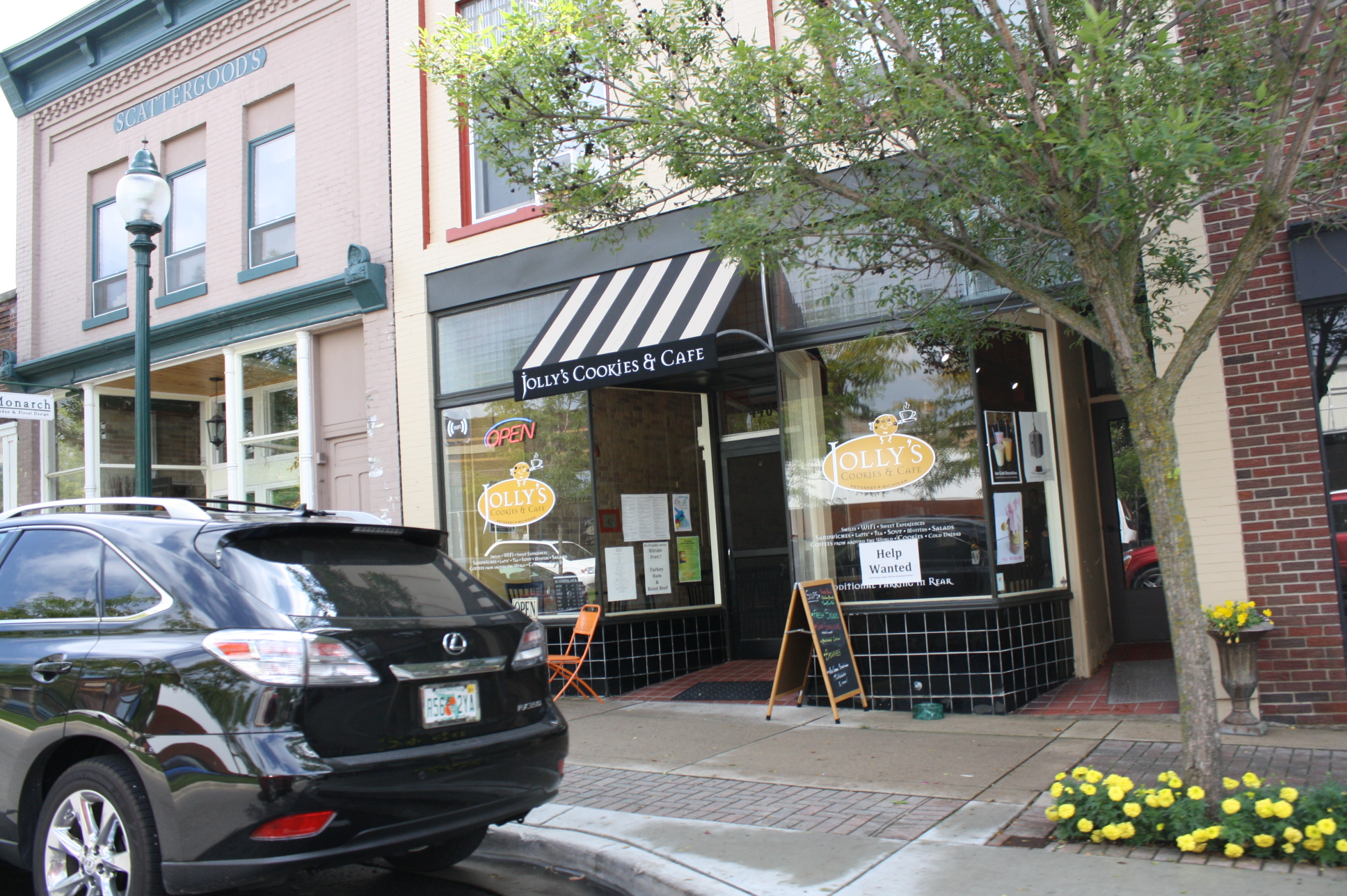 Jolly's Cookie and Cafe, a building in the Petoskey Downtown Historic District.